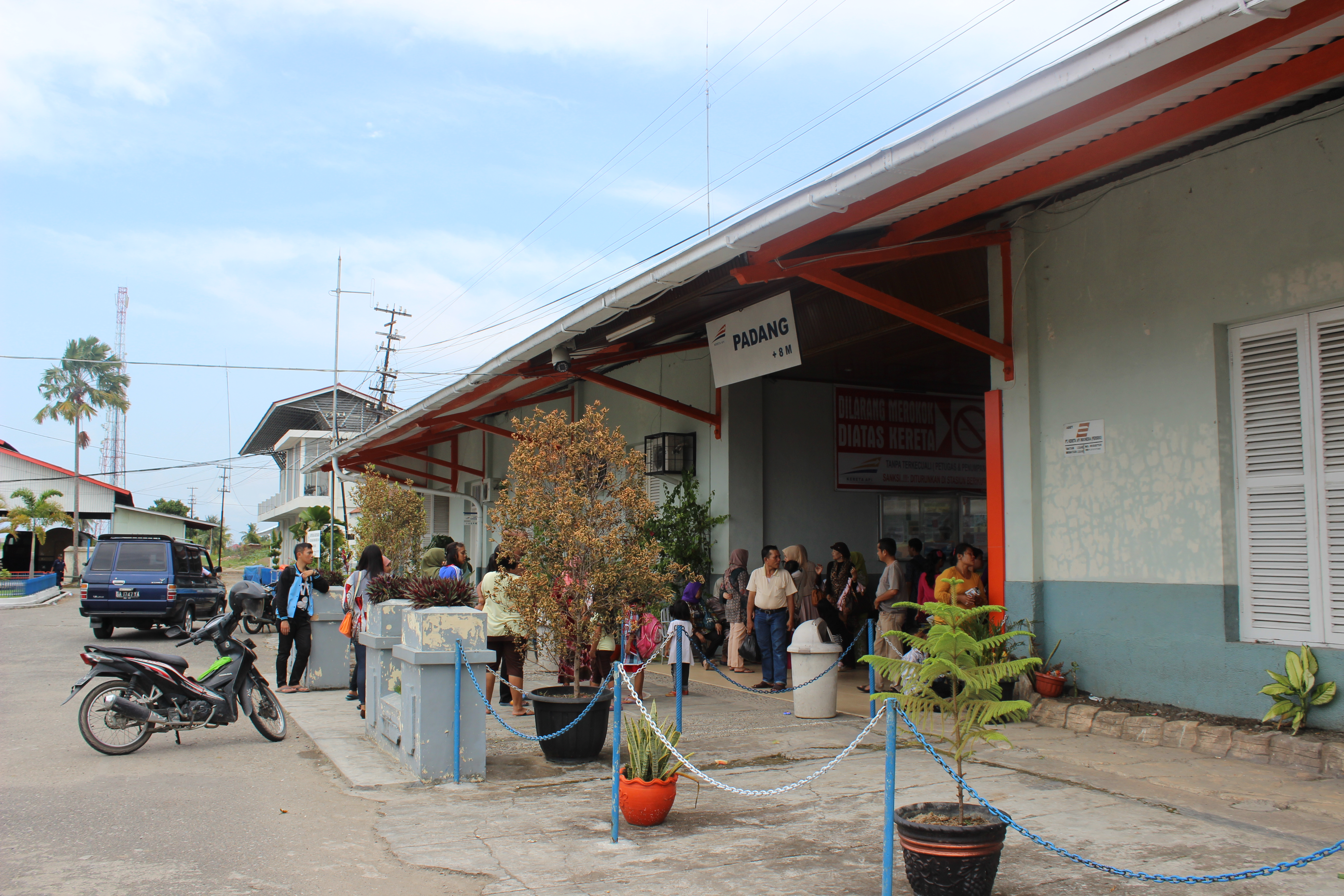 Simpang Haru railway station in Padang, West Sumatra.